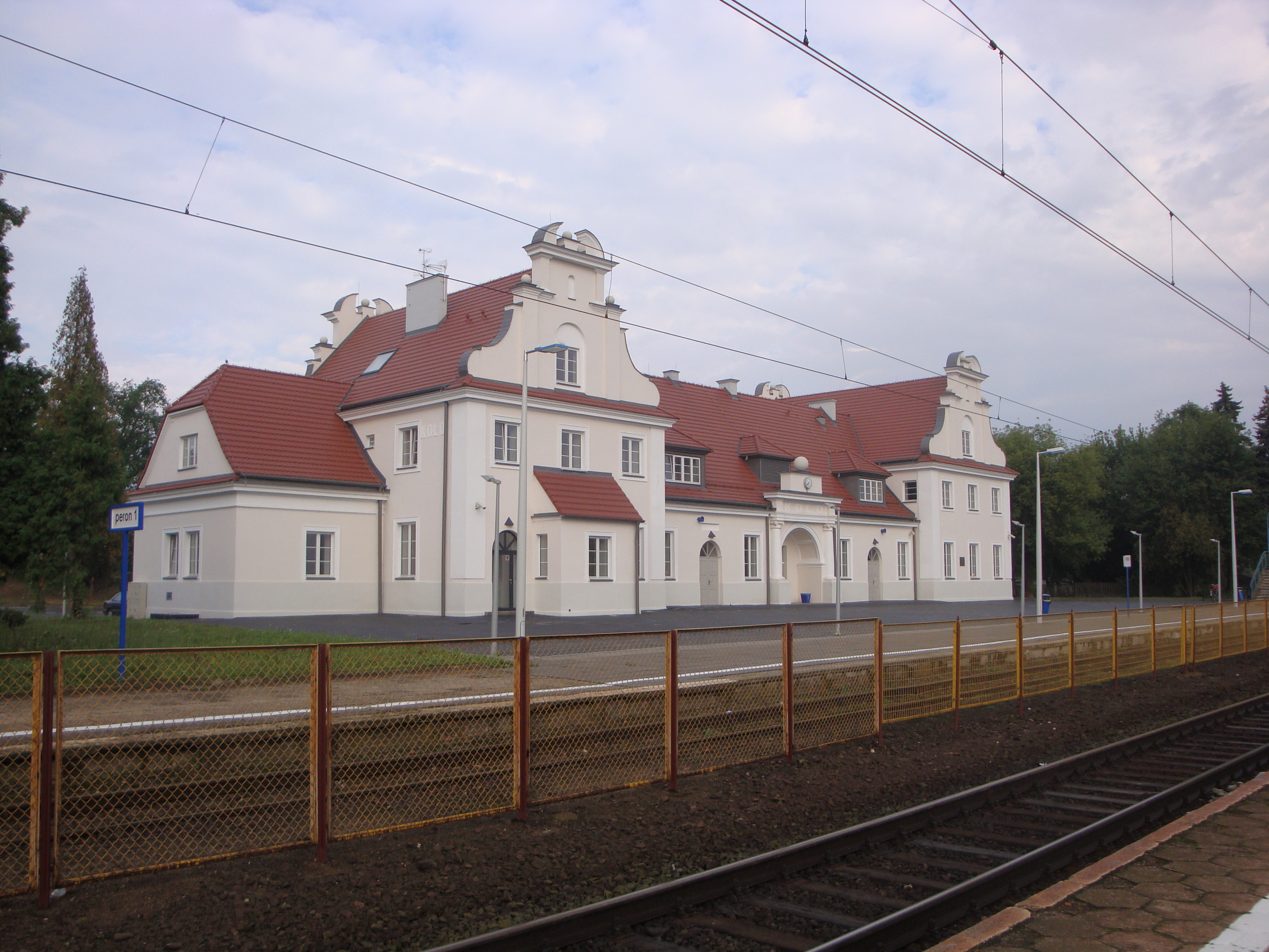 Dworzec kolejowy w Kole. This photo was taken during Railway Wikiexpedition 2013 set up by Wikimedia Polska Association. You can see all photographs in category Wikiekspedycja kolejowa 2013. English | Polski | +/−